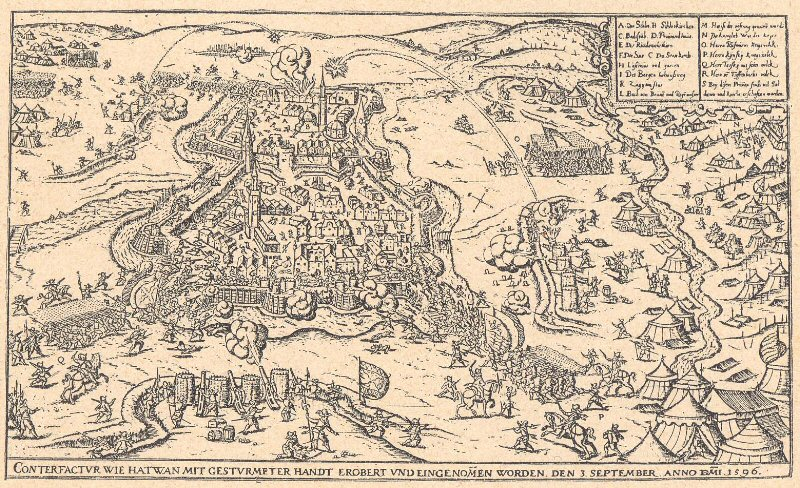 Hatvan in 1596 by Ortelius